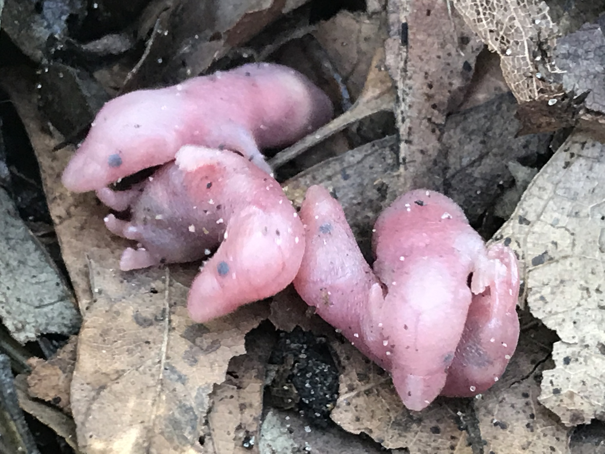 A litter of four newborn masked shrews (Sorex cinereus).